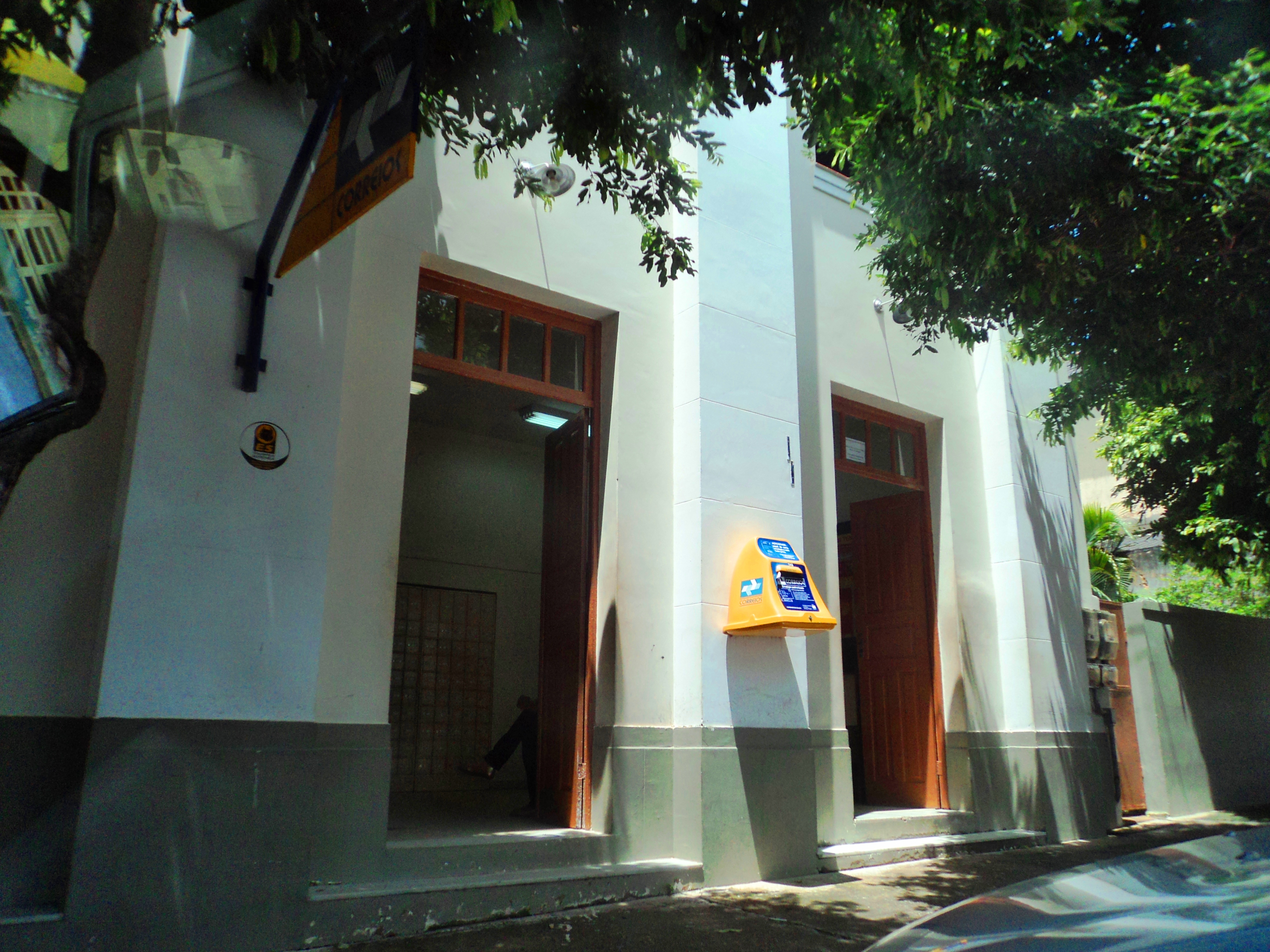 Agency of the Empresa Brasileira de Correios e Telégrafos (ECT) in Baixo Guandu, Espírito Santo, Brazil.